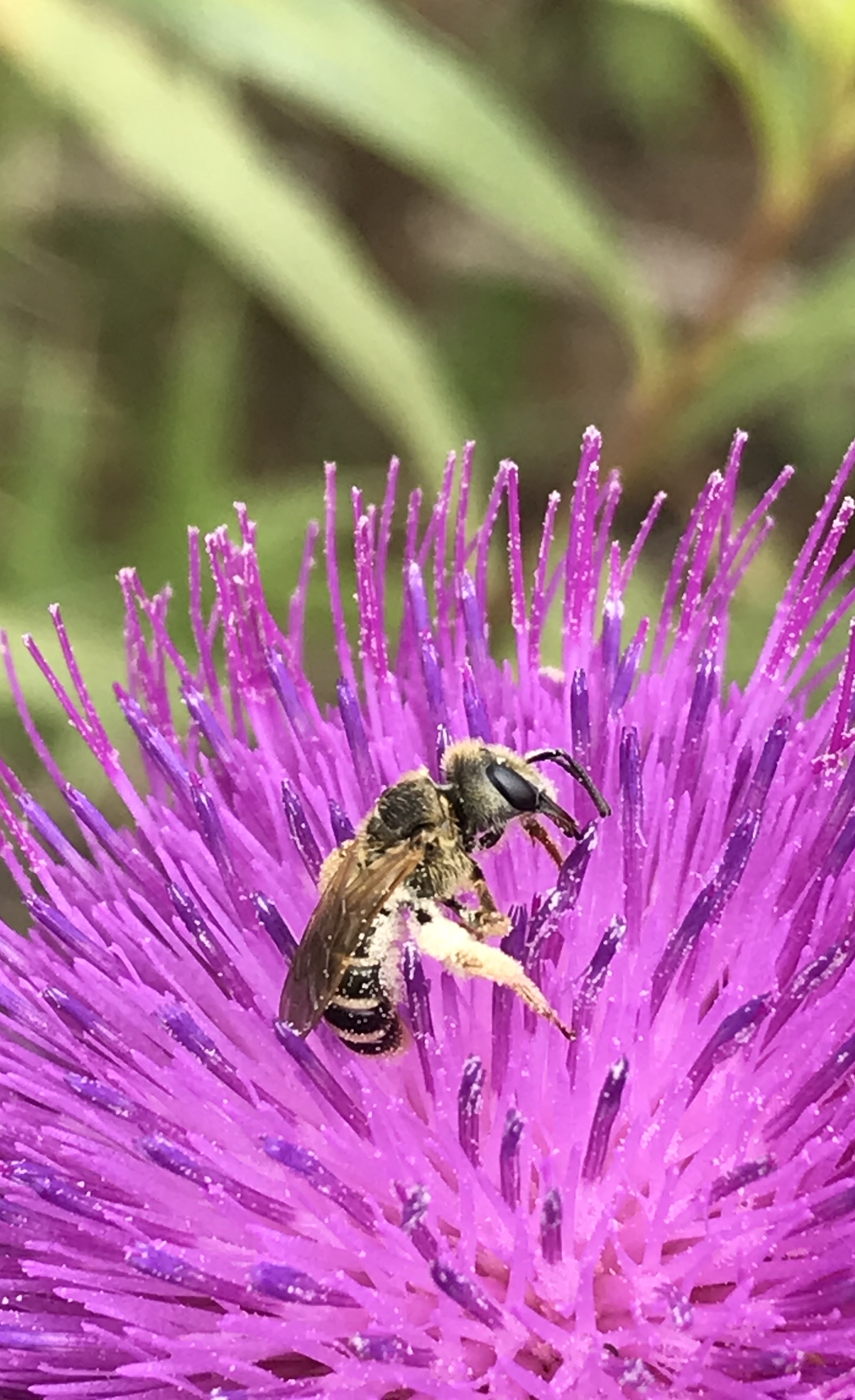 Halictus ligatus | Ligated furrow bee on thistle blossom, Ballona Wetlands Ecological Preserve, Los Angeles County, California